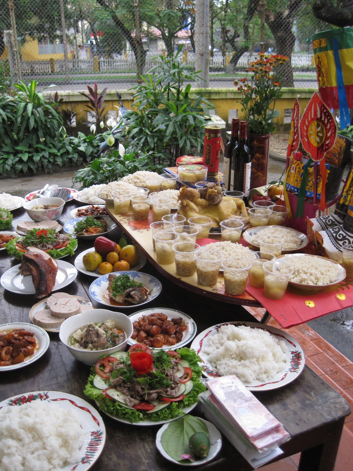 Offerings for Tet at the office (2011). As a colleague of mine said: better to be on the safe side